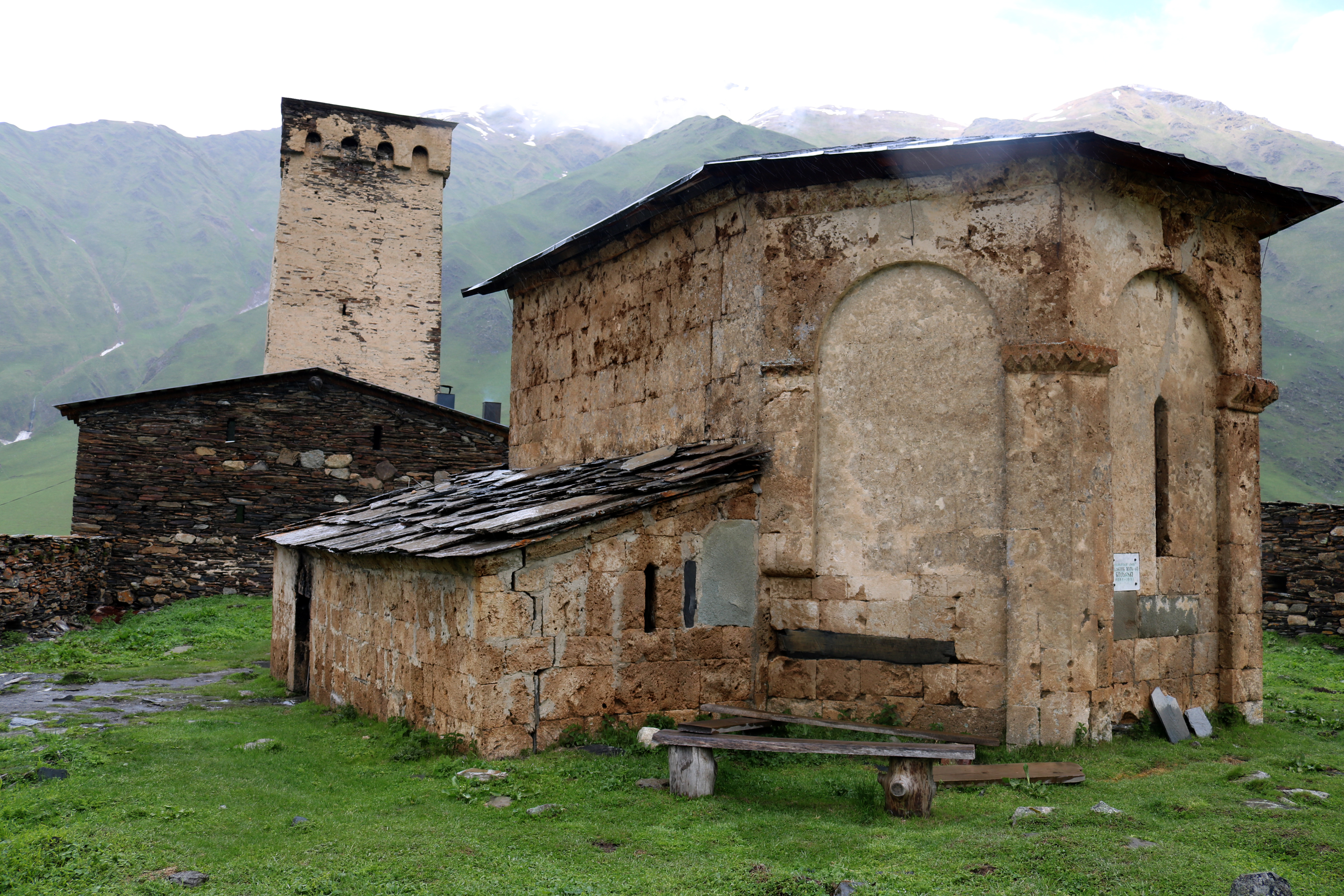 Lamaria church, in Ushguli, Georgia, region svaneti